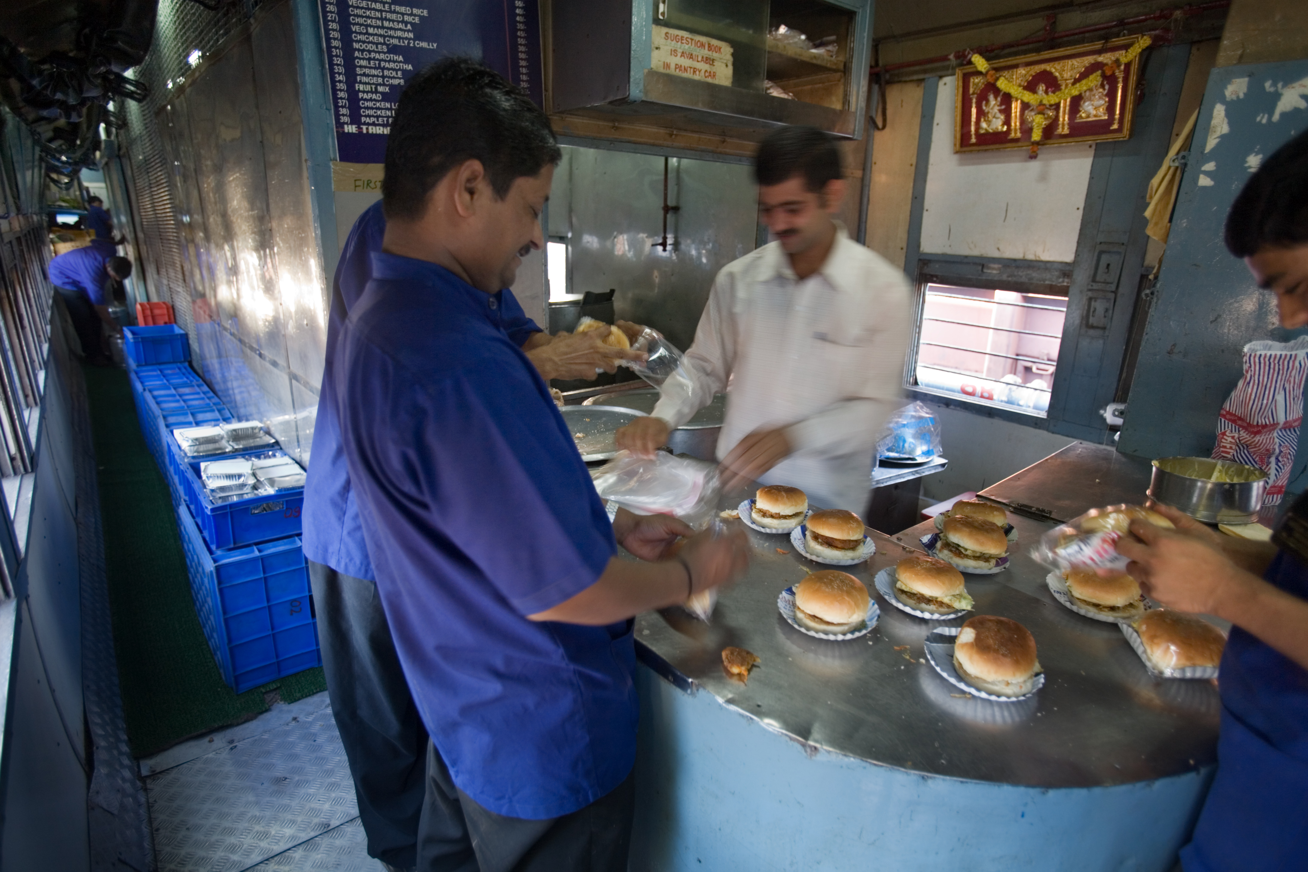 Indian Railways Kitchen coach